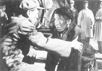 Scene from the film Nongnu. Jampa is taken by the shoulder par PLA military